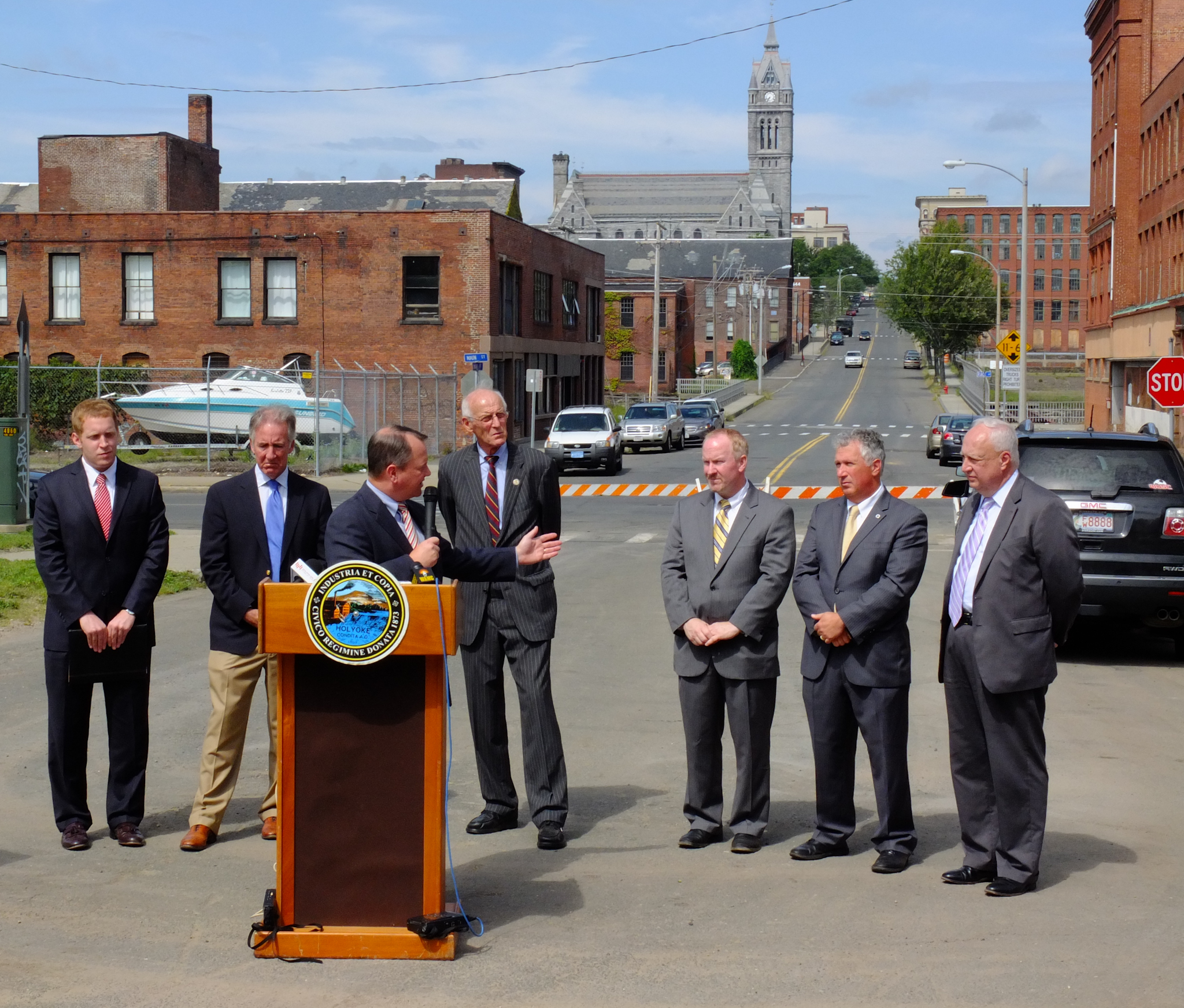 Lieutenant Governor Timothy Murray joined Congressman John Olver, Congressman Richard Neal and Mayor Alex Morse of Holyoke for a first look at the potential site of the upcoming Holyoke Passenger Rail platform and announced construction is now underway to restore passenger rail service along the Connecticut River rail line, known as the Knowledge Corridor. Funded through a $73 million federal grant by the federal stimulus American Recovery and Reinvestment Act (ARRA) High-Speed and Intercity Passenger Rail program, the Knowledge Corridor project will restore Amtrak's intercity passenger train service to its original route by relocating the Vermonter from the New England Central Railroad back to its former route on the Pan Am Southern Railroad. “Investing in passenger rail service along the Knowledge Corridor is one example of how government is working to promote economic development in all regions of the state,” said Lieutenant Governor Murray. “My sincere thanks goes to Congressman Olver and Congressman Neal who are making this project a reality.” Construction is currently underway to replace 20,000 rail ties from Greenfield to the Vermont border. The Knowledge Corridor project is on track to bring rail service to Northampton and Greenfield in 2014. Holyoke is beginning the design process for Holyoke Train Station and rail work is expected to begin this fall. “MassDOT is pleased to partner with the city of Holyoke. This Knowledge Corridor is a great example of our statewide rail initiative that is providing more opportunity for all residents and the visitors to the Commonwealth,” said Massachusetts Department of Transportation (MassDOT) Secretary & CEO Richard A. Davey